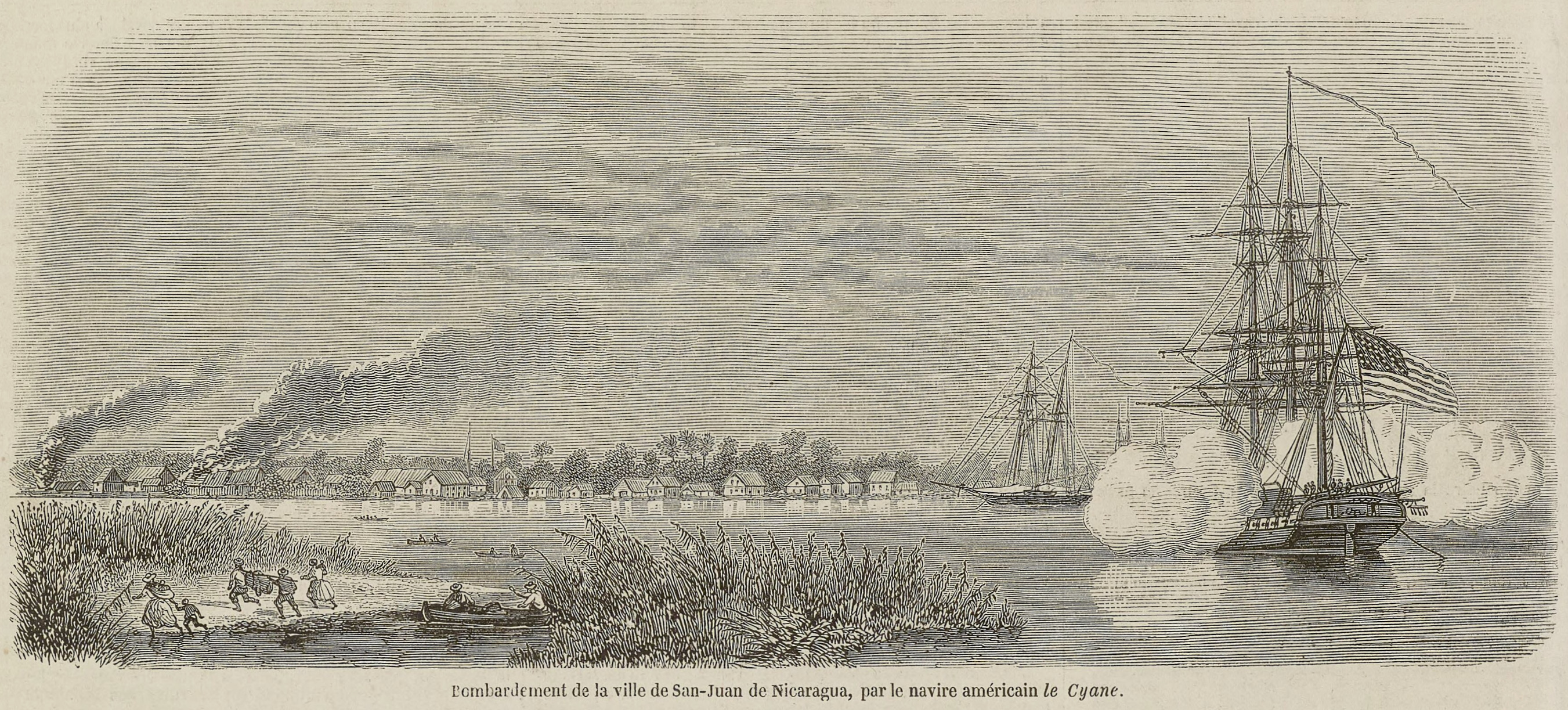 Bombardmen of San Juan del Norte, July 13, 1854 by USS Cyane.